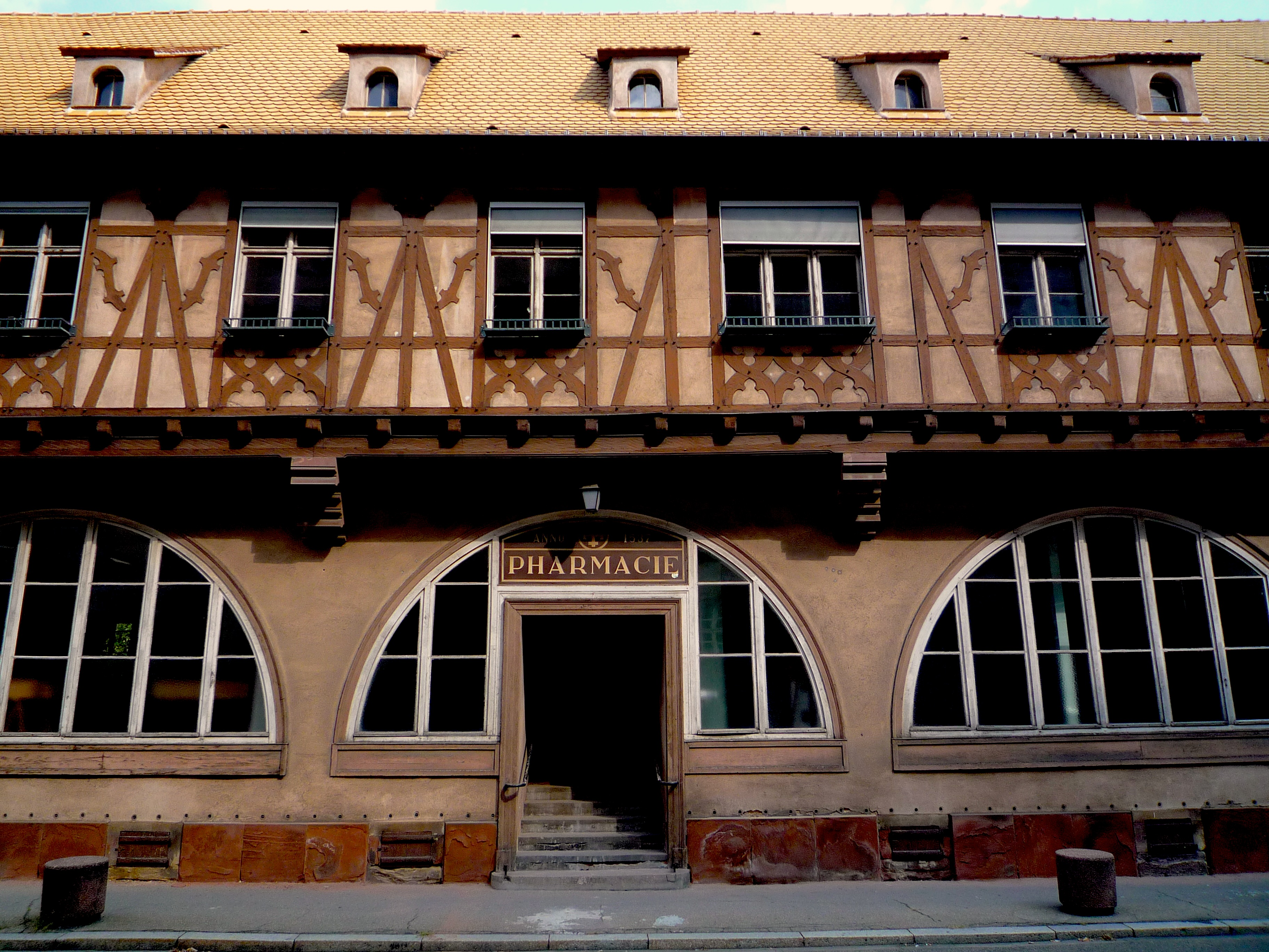 Old pharmacy (1537) inside Strasbourg hospital